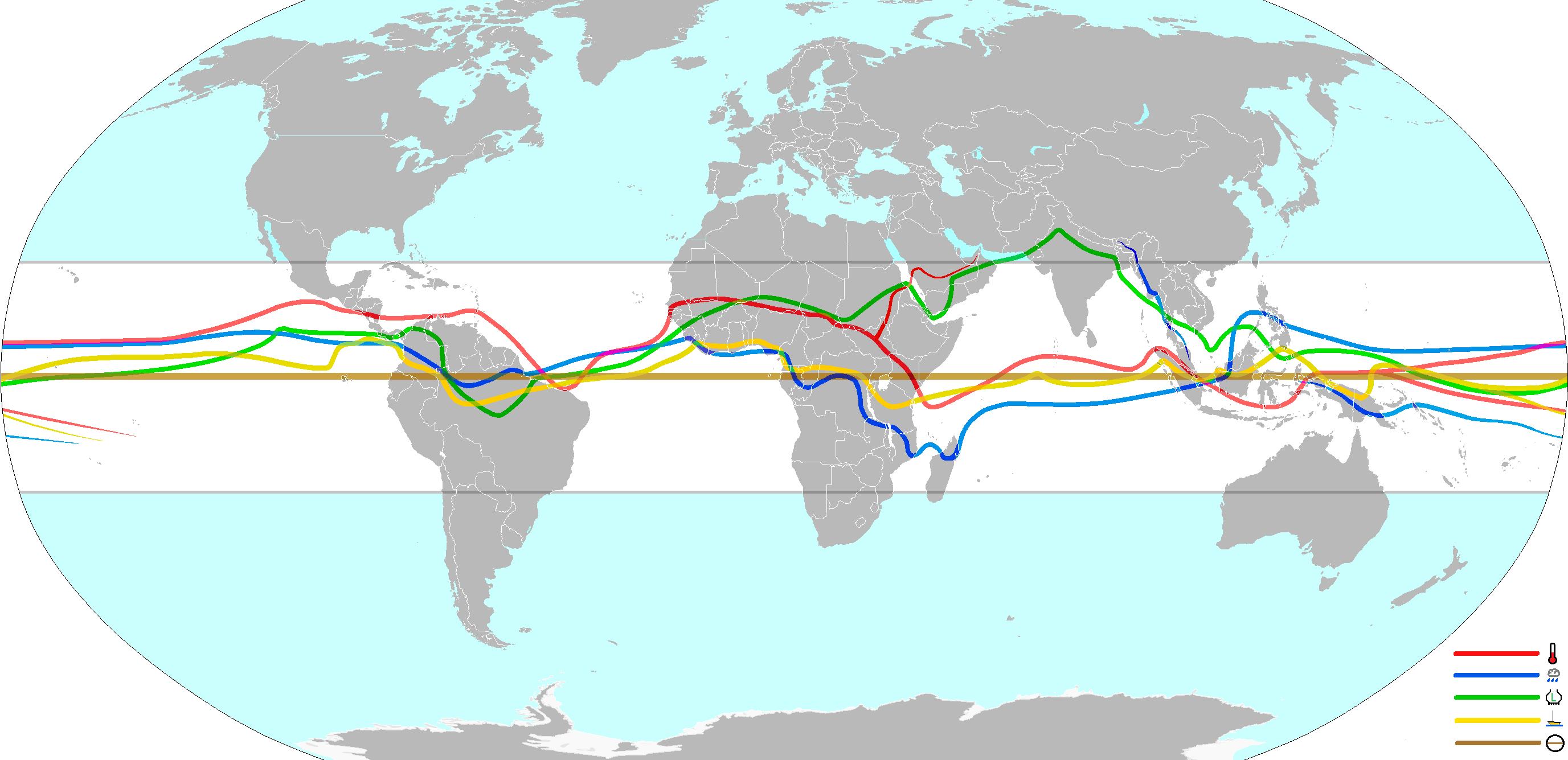 World map of climate equators